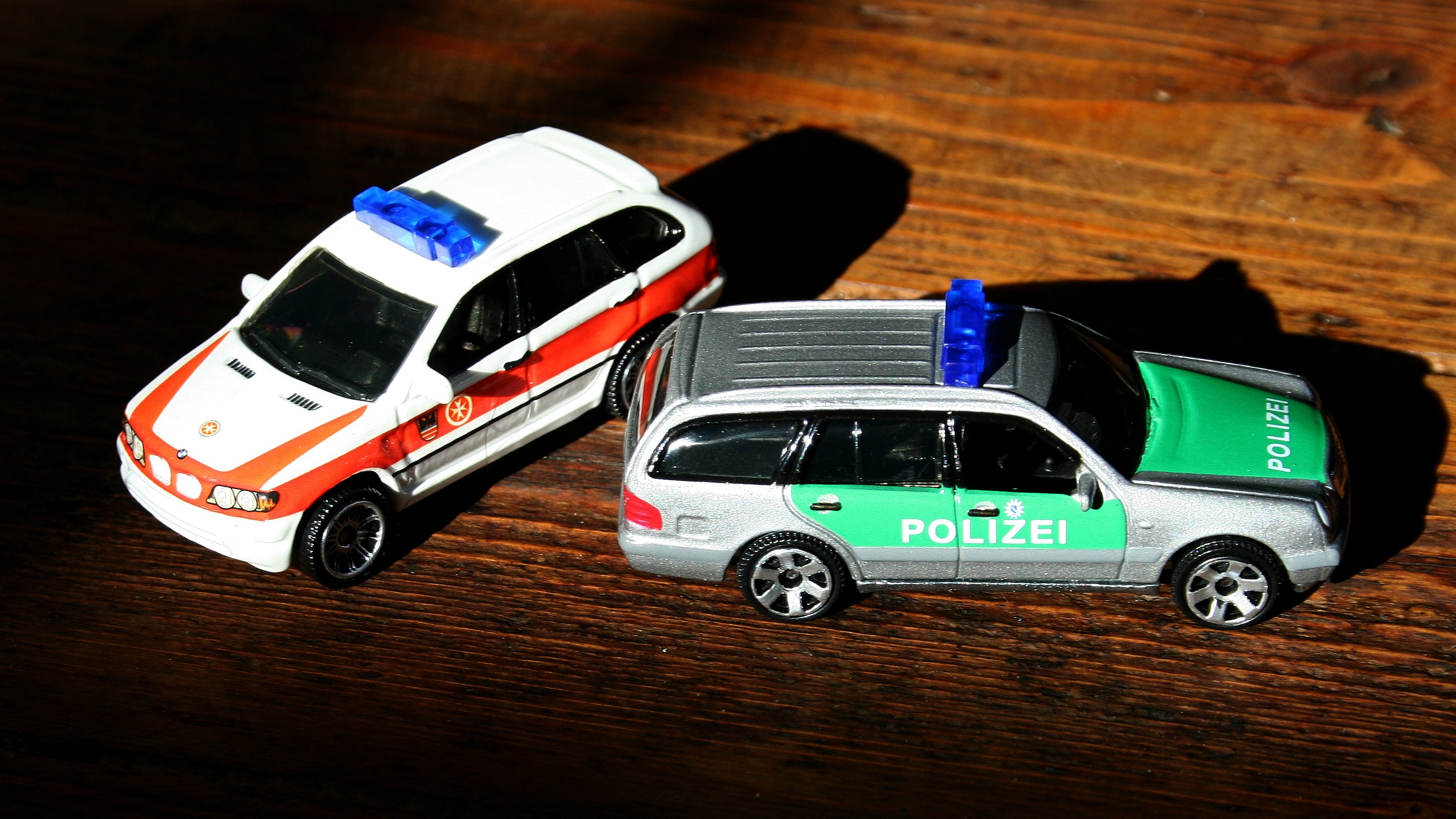 Two models from the 2006 German regional Matchbox issue "Stars of Cars", a Mercedes E430T in "Polizei" livery and a BMW X5 in "Notarzt" livery